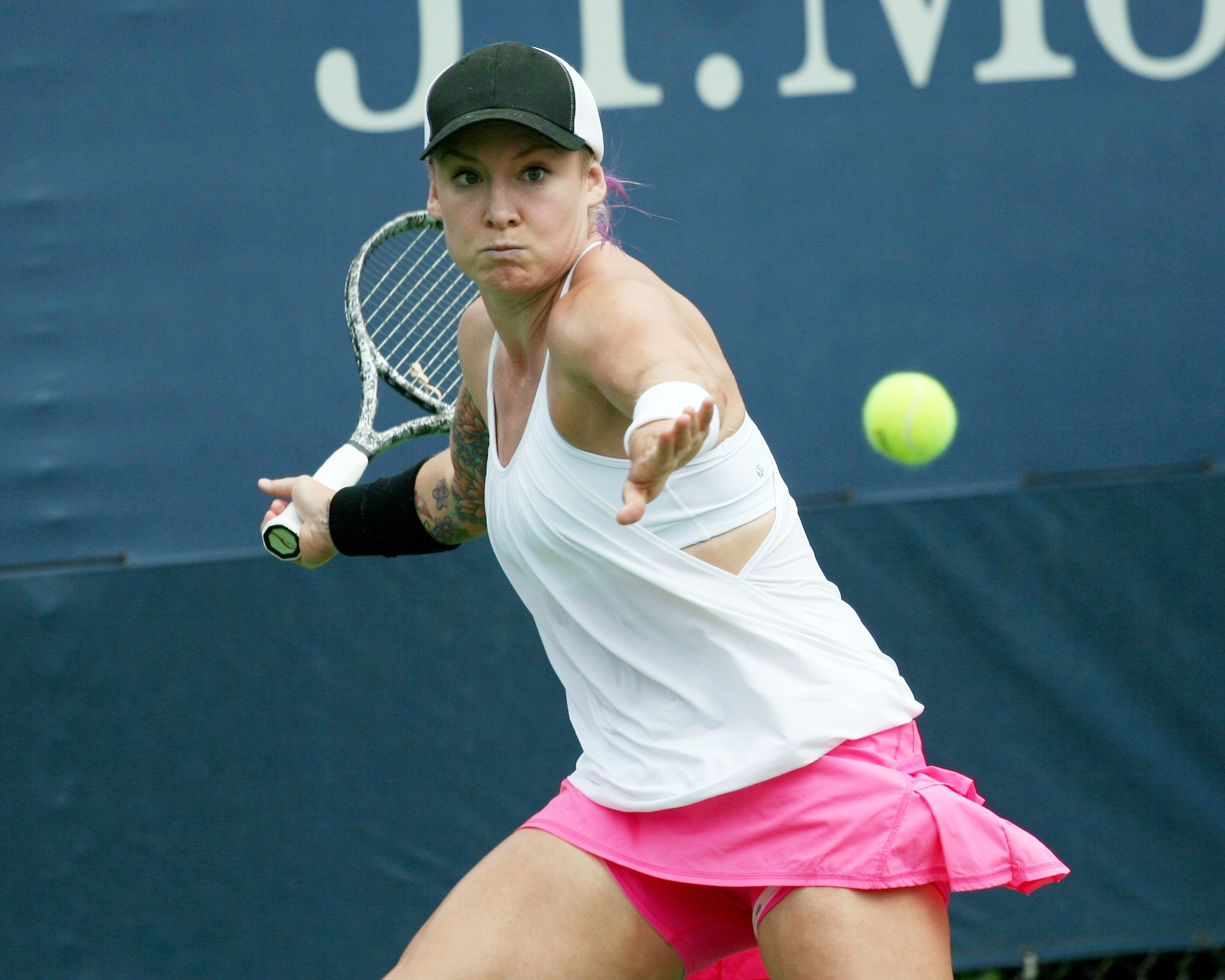 U.S. Open Thursday, Aug. 29, 2013